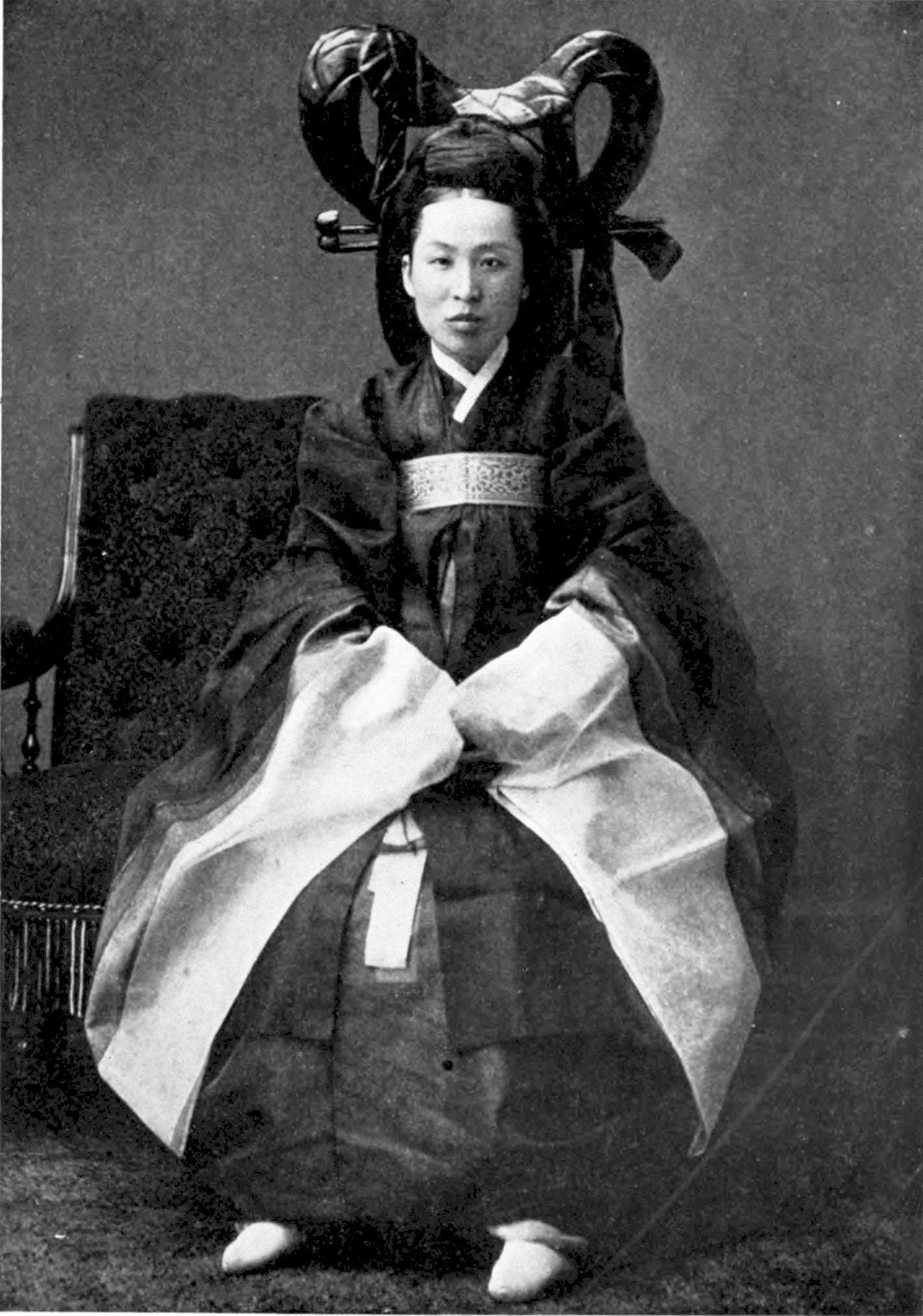 A Palace-woman in full regalia, c.1900; p.183 The passing of Korea (book)